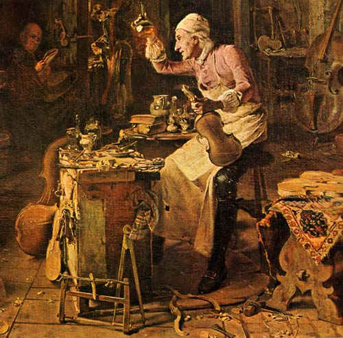 Photo Stradivari